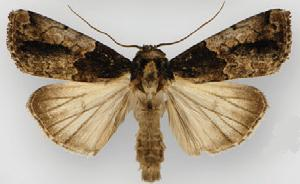 Bryolymnia anthracitaria male